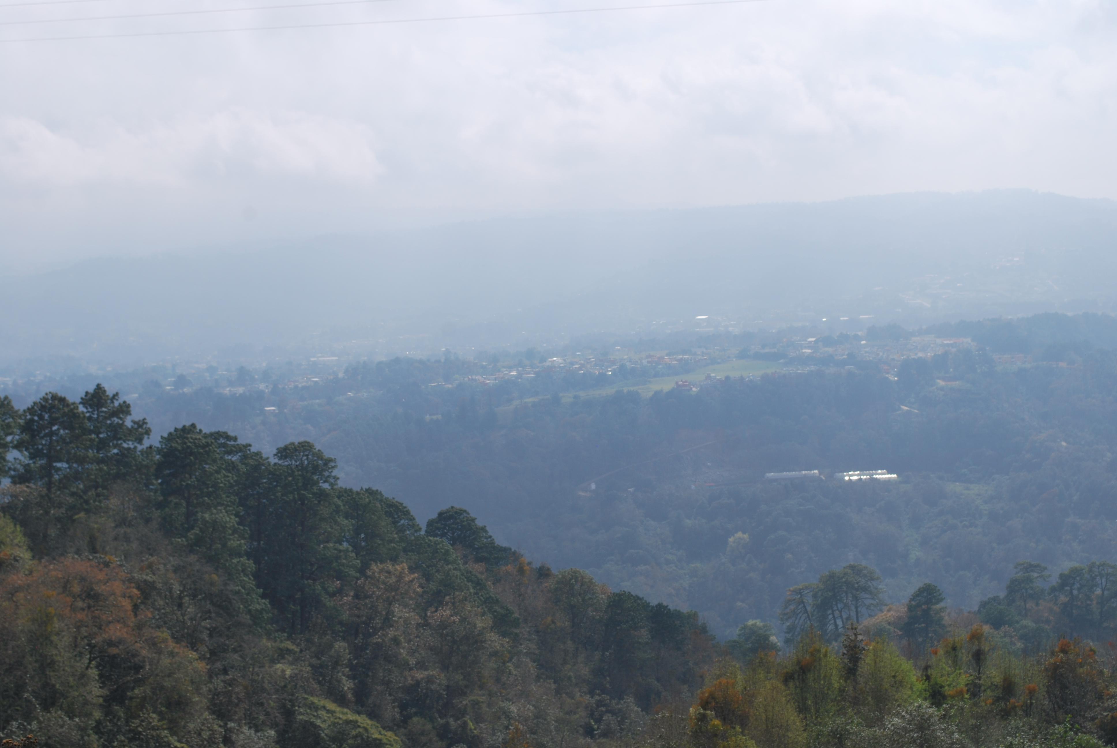 View of landscape between Huauchinango and Naupan in Puebla, Mexico